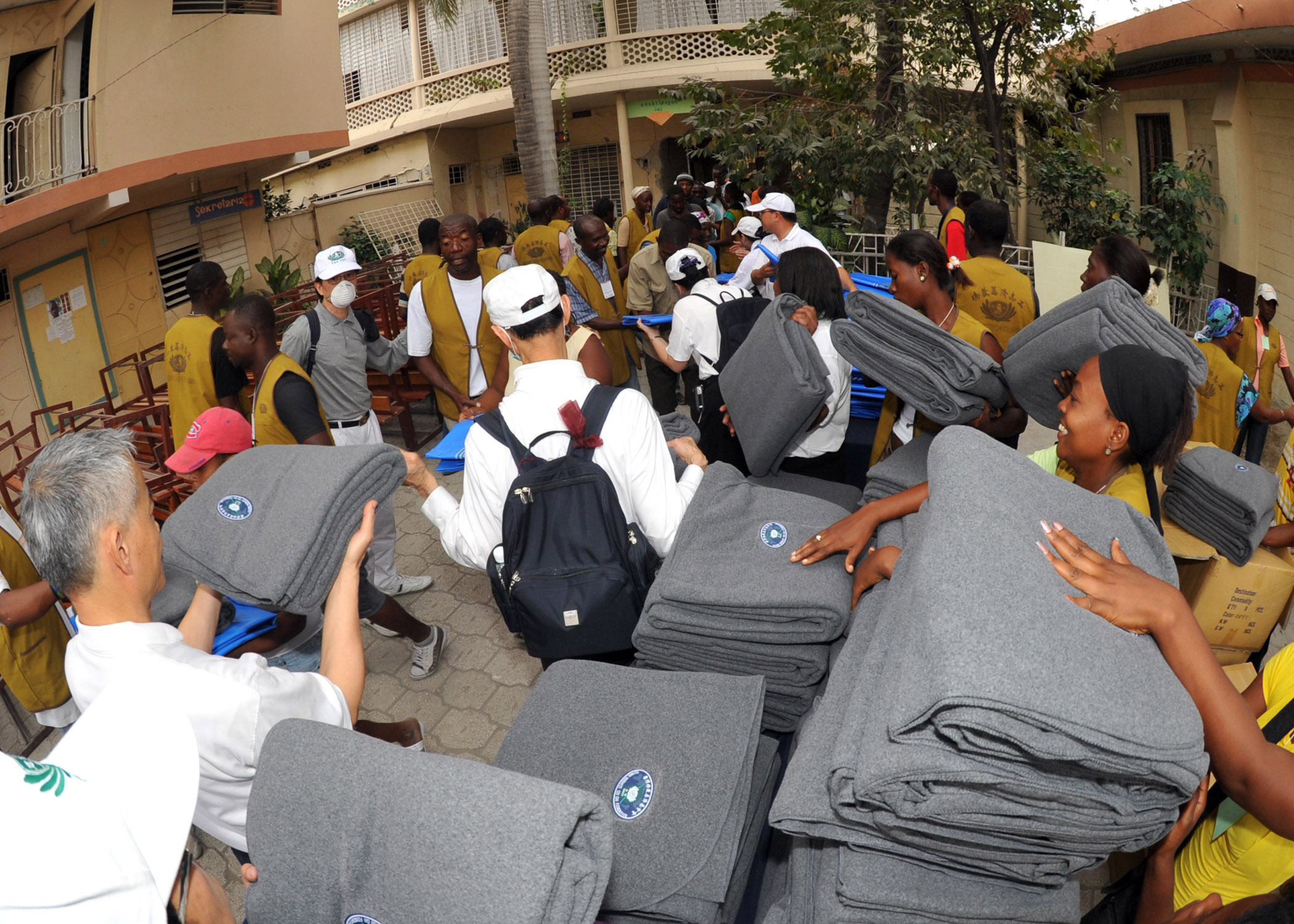 PORT-AU-PRINCE, Haiti (Feb. 26, 2010) Members of the Bouddhiste Tzu Chi Foundation, a Buddist charity based in Taiwan, distribute about 2,000 blankets and tarps to Haitian citizens. Several U.S. and international military and non-governmental agencies are conducting humanitarian and disaster relief operations as part of Operation Unified Response after a 7.0-magnitude earthquake caused severe damage in and around Port-au-Prince, Haiti Jan. 12. (U.S. Navy photo by Chief Mass Communication Specialist Robert J. Fluegel/Released)